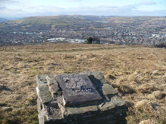 Plaque on Caerphilly Common Looking north-west from the top of Caerphilly Common towards Mynydd Meio ST1188. The small stone pillar in the foreground, which is not far from the trig point , carries just a sadly vandalised slate tablet that has a verse from the Bible in Welsh and English. The English being "O Lord, how manifold are thy works! in wisdom hast thou made them all: the earth is full of thy riches. Psalm 104,24". A similar plaque is located some miles away .